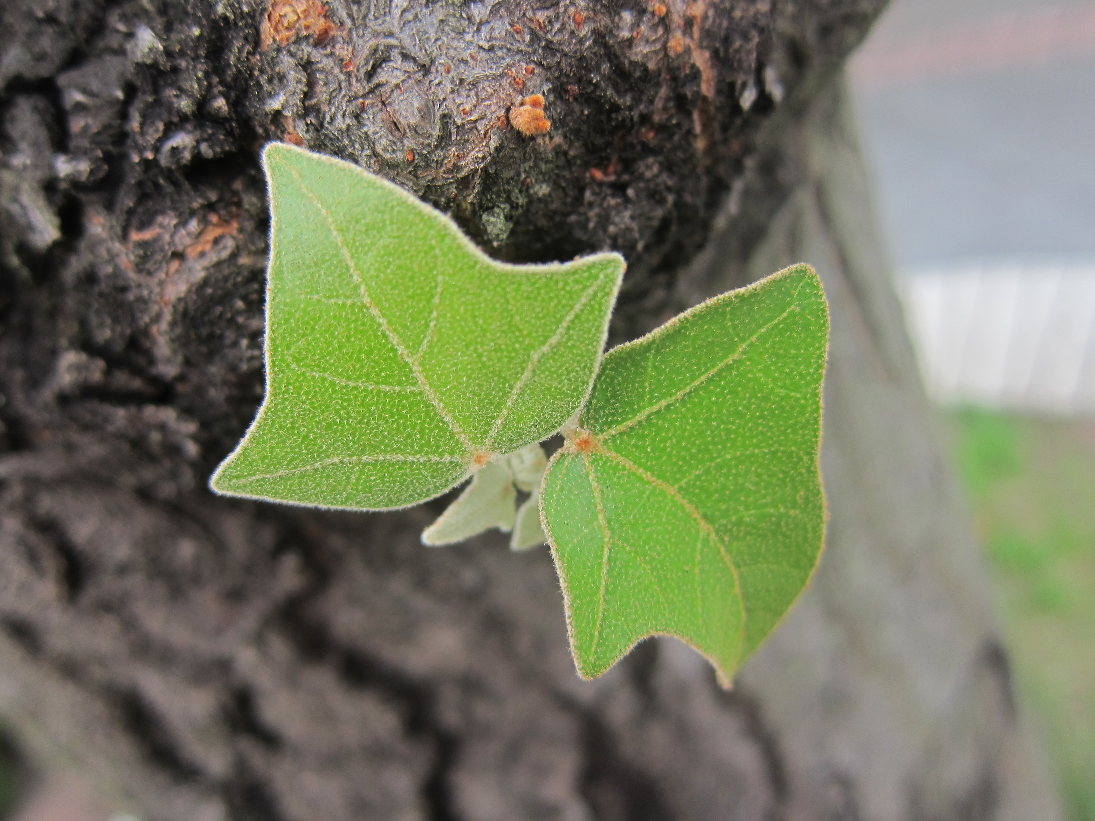 The photo of the young leaves of Aleurites moluccana taken in King Wan Street Playground in To Kwa Wan